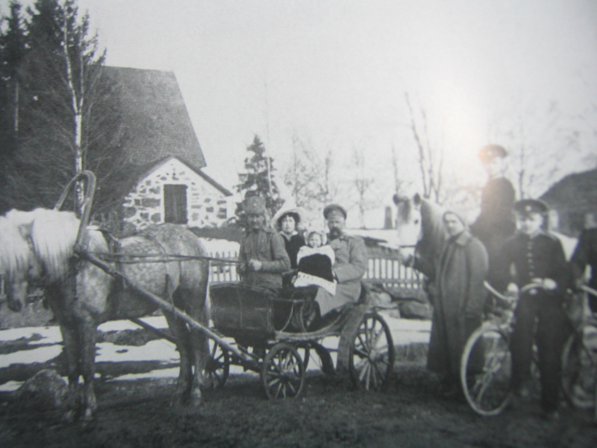 Russian officer Georgi Bulatselj with family. Bulatselj was red leader during Finnish civil war.